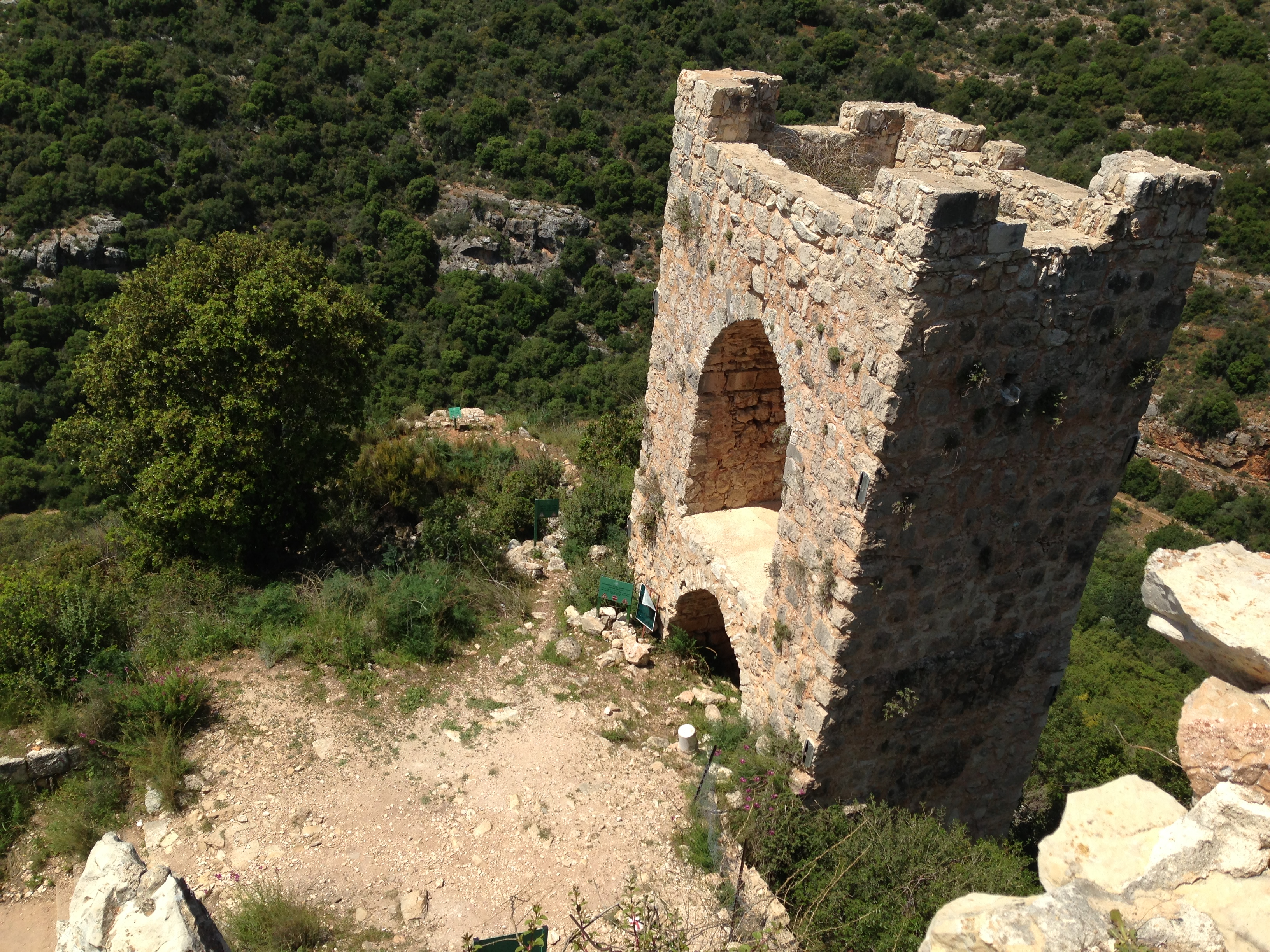 Monfort Fortress, Nahal Kziv